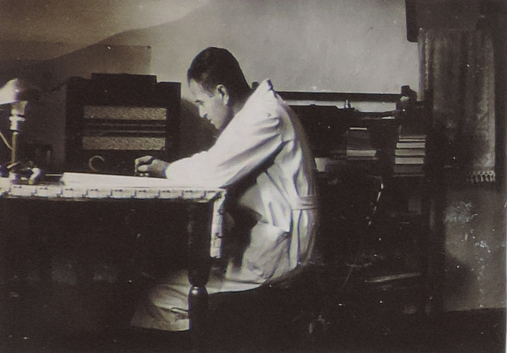 A photo album by doctors, paramedics and midwives at the Kyustendil Sanitary region in 1936. It was compiled by Dr. A. Ogoyski. Handed to His Royal Highness Simeon Knyaz Tarnovski.